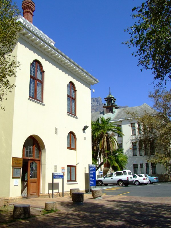 View of Hiddingh Hall library on Hiddingh Campus